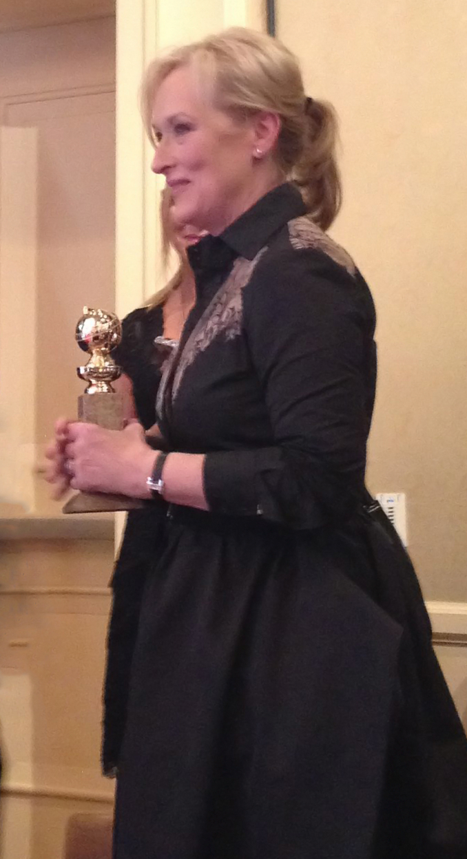 Meryl Streep on the 69th Annual Golden Globes Awards